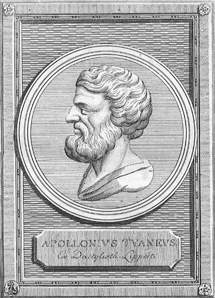 Portrait of Apollonius of Tyana (c. 15 – c. 100 AD). Labelled Apollonius Tyaneus / Ex dactylioth. Lipperti.